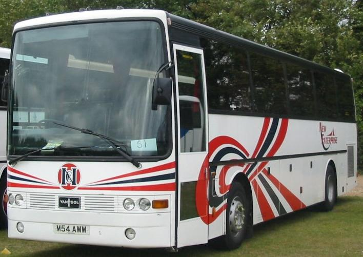 New Enterprise Coach M54 AWW (cropped from source image). Van Hool Alizée HE-II body on a Scania K113CRB coach.